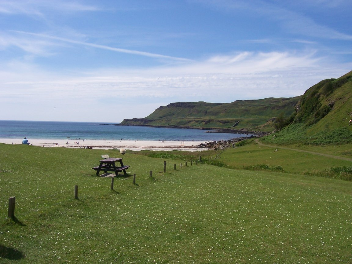 Calgary Bay (Traigh Chalgaraidh) Calgary, Mull July 2006